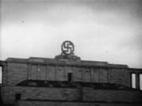 First image from image:98-animate.gif Swastika blasted from the Nazi party rally grounds in Nuremberg in 1945. The U.S. Army blew the swastika from the top of the Zeppelintribüne on 25 April 1945, shown in this sequence of Army Signal Corps photos (a similar motion picture also exists). (National Archives Record Group 111-SC, #205199-205201)